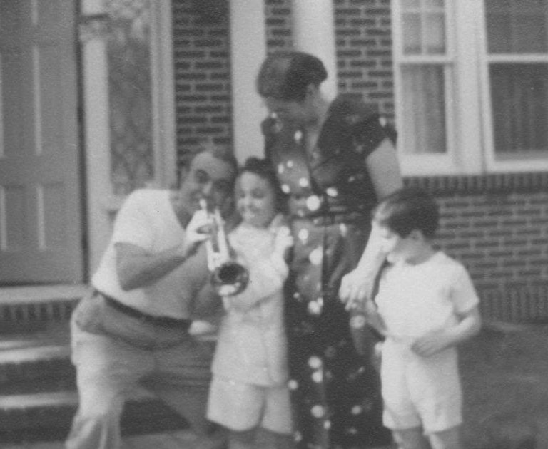 Trumpeter Joseph Rescigno playing Petrushka for his first two grandchildren, Joseph and Thomas Rescigno, 1953. (The boy's mother stands between them.)